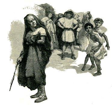 Elementary history of Greece, made up principally of stories about persons, givingat the same time a clear idea of the most important events in the ancient world and calculated to enforce the lessons of perseverance, courage, patriotism, and virtue that are taught by the noble lives described. Beginning with the legends of Jason, Theseus, and events surrounding the Trojan War, the narrative moves on to present the contrasting city-states of Sparta and Athens, the war against Persia,their conflicts with each other, the feats of Alexander the Great, and annexation by Rome.